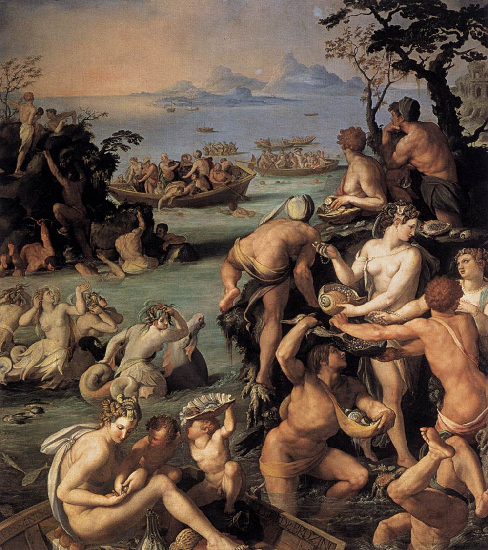 Pearl Fishers